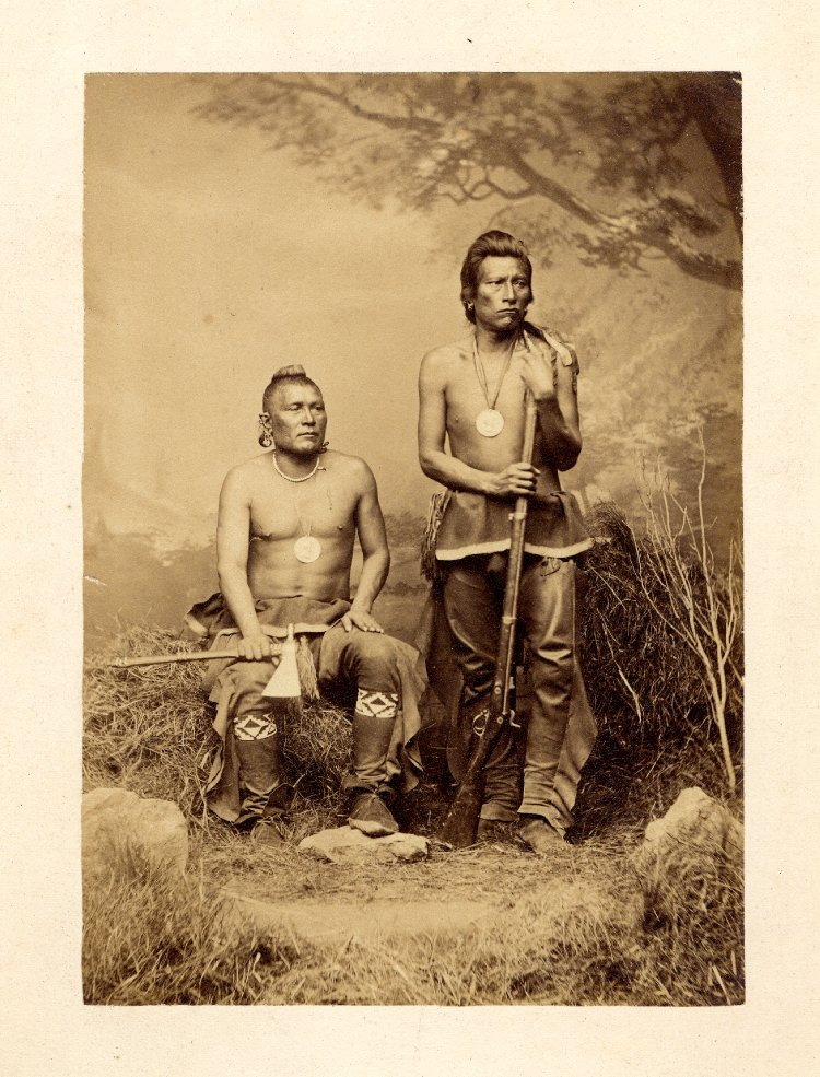 Studio portrait of two Pawnee chiefs, albumen print, by the American photographer John H. Fitzgibbon, taken at St. Louis, Missouri, approximately 1850s. 14.1 cm x 9.9 cm. Courtesy of the British Museum, London.